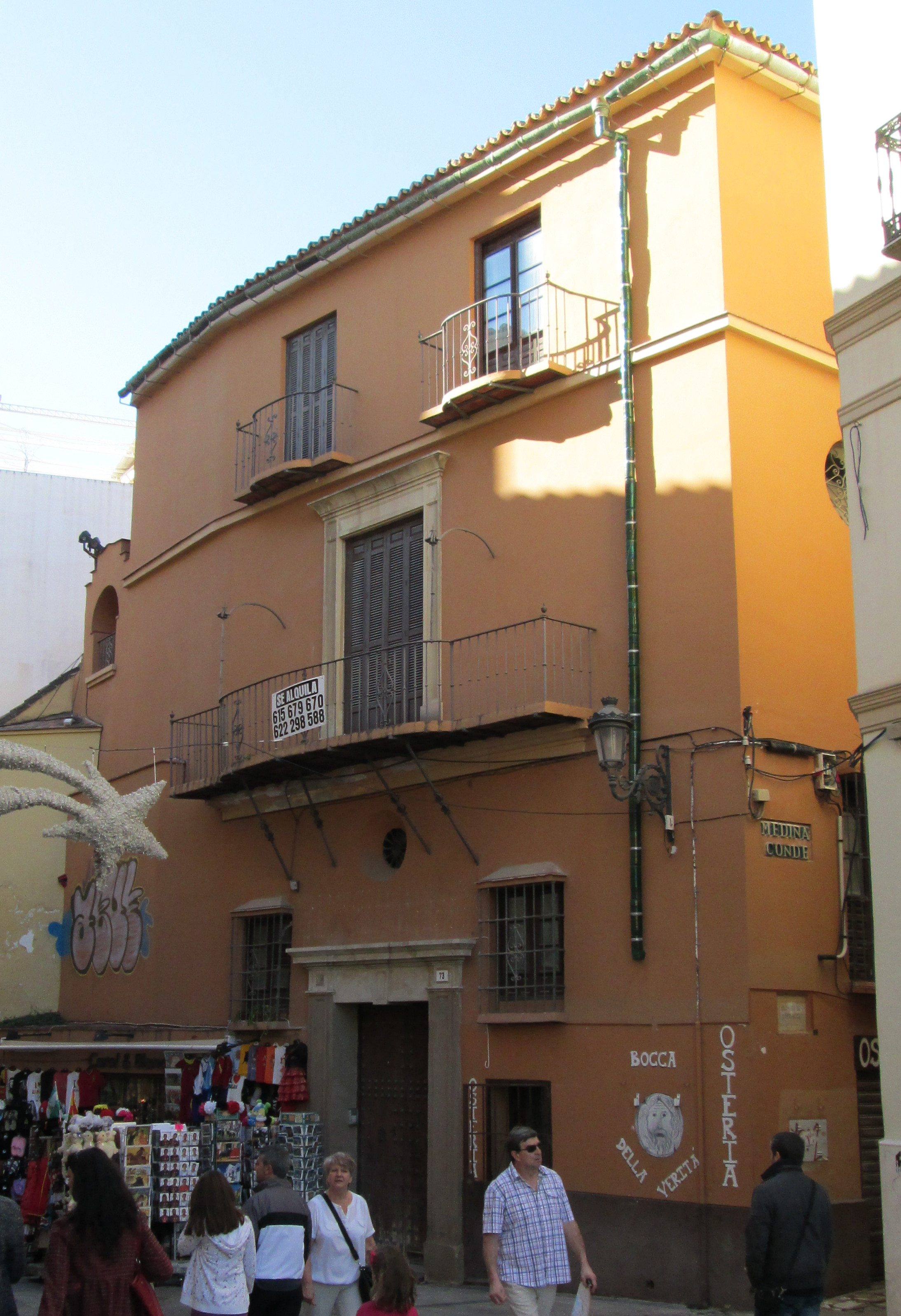 Calle Granada 73 by Antonio Valderrama 1777